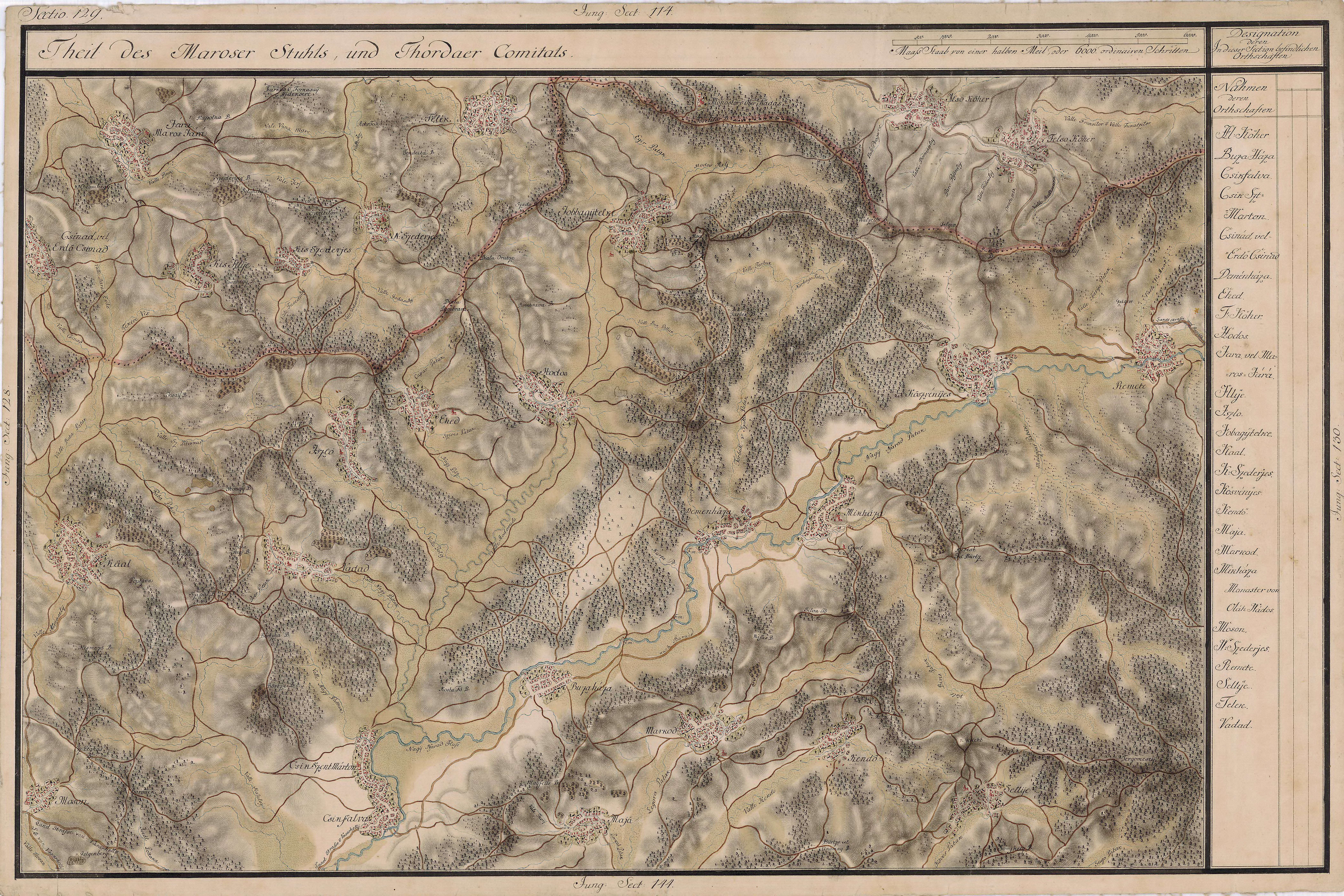 Grand Duchy of Transylvania, 1769-1773. Josephinische Landaufnahme pg.129